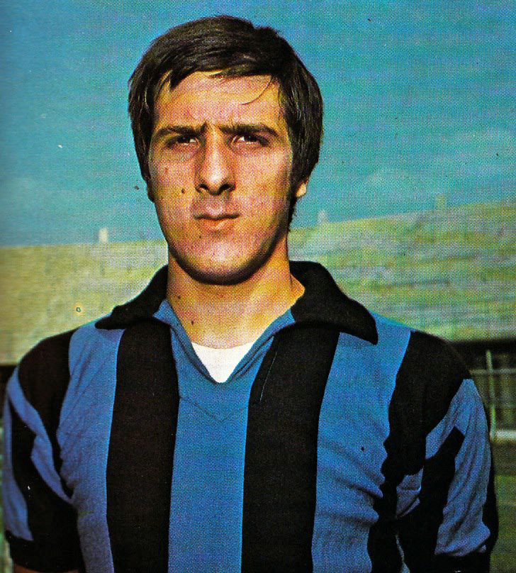 Gaetano Scirea with the Atalanta B.C. jersey (1972-74).